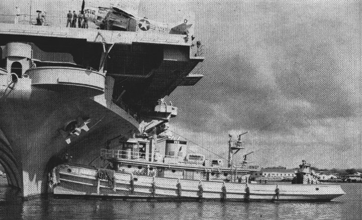 The U.S. Navy tug USS Neoga (YTB-263) nudges the aircraft carrier USS Hancock (CVA-19) into the channel at Pearl Harbor, Hawaii. A Douglas AD-6 Skyraider from Attack Squadron VA-125 Rough Raiders is visible on the bow. VA-125 was assigned to Carrier Air Group 12 (CVG-12) on the Hancock for a deployment to the Western Pacific from 10 August 1955 to 15 March 1956.